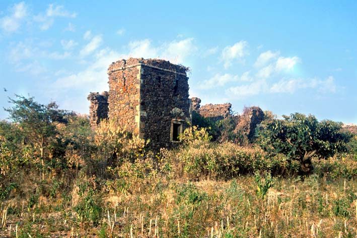 Emperor Susenyos Castle